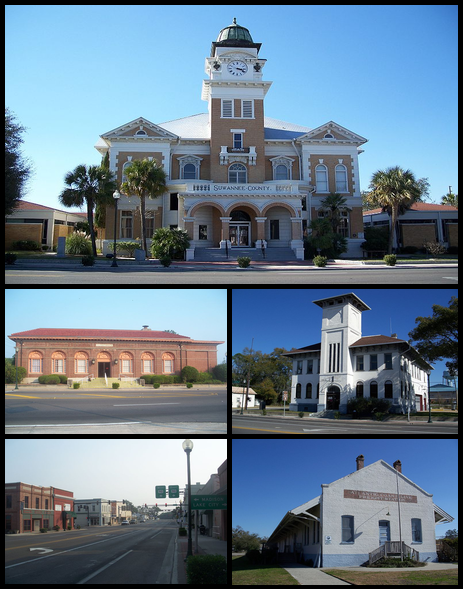 A collection of photos around Live Oak taken by user Ebyabe.